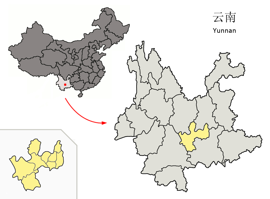 Location of Yuxi Prefecture (yellow) within Yunnan province of China Map drawn in september 2007 using various sources, mainly : Yunnan province administrative regions GIS data: 1:1M, County level, 1990 Yunnan Counties map from